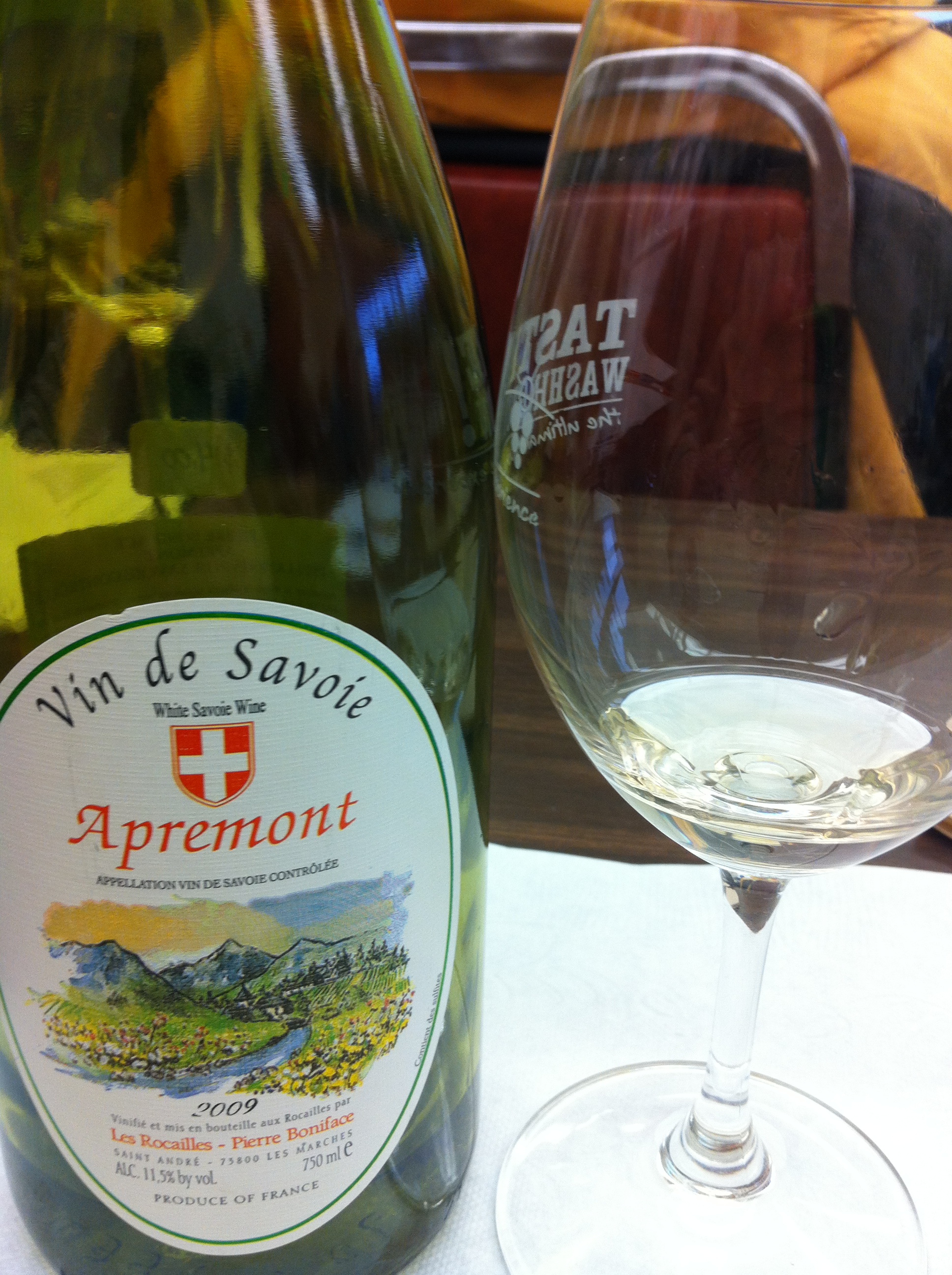 French wine from the Savoy wine region made in the village of Apremont predominantly from the Jacquere grape.